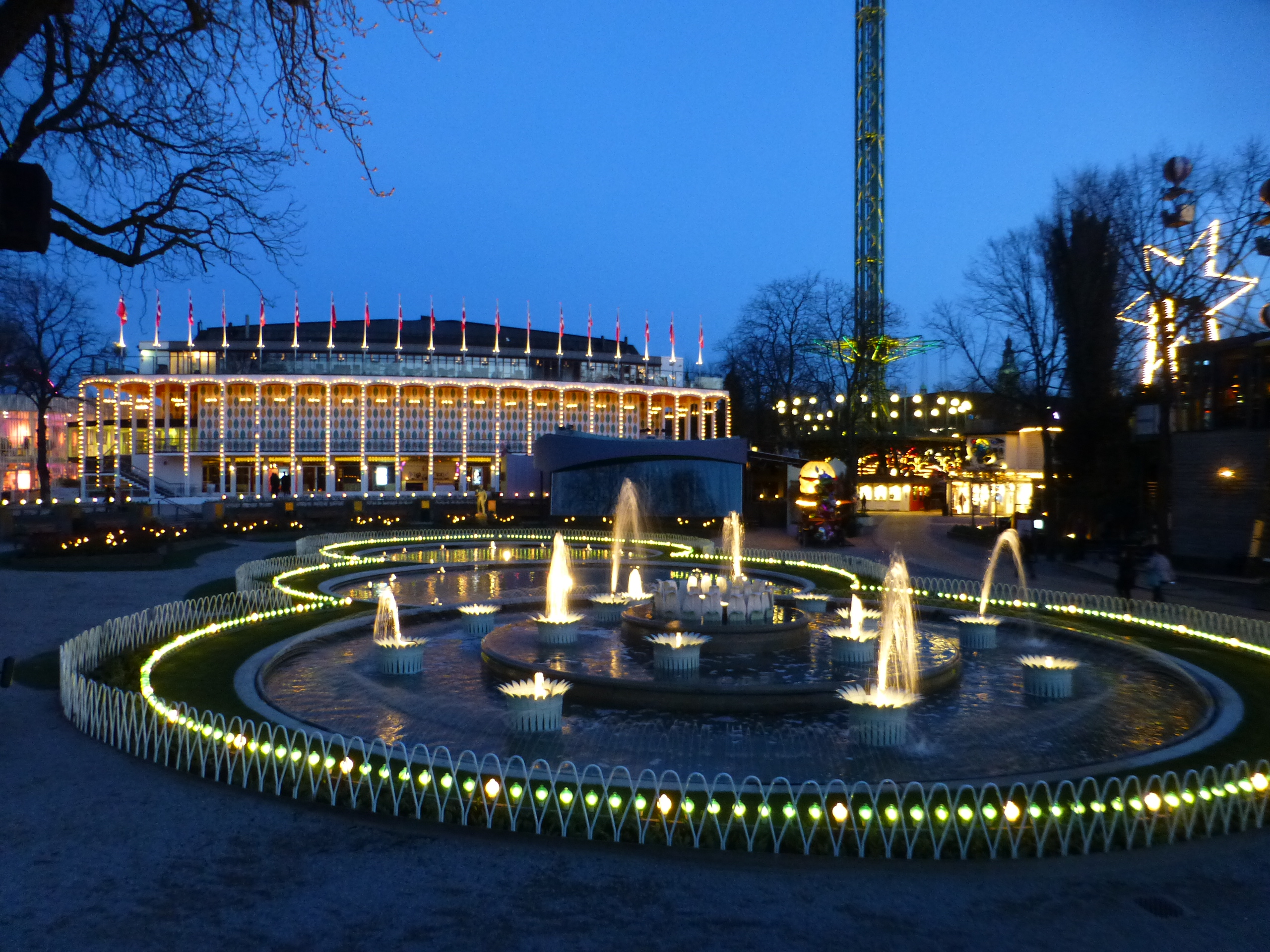 Garden with fountains at Koncertsalen (the concert hall) in the amusement park Tivoli in Copenhagen.